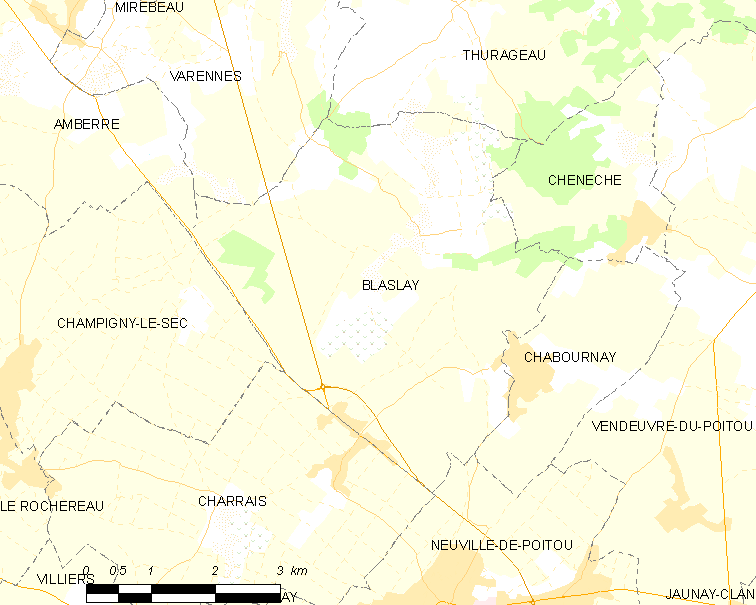 Map of French municipality Blaslay